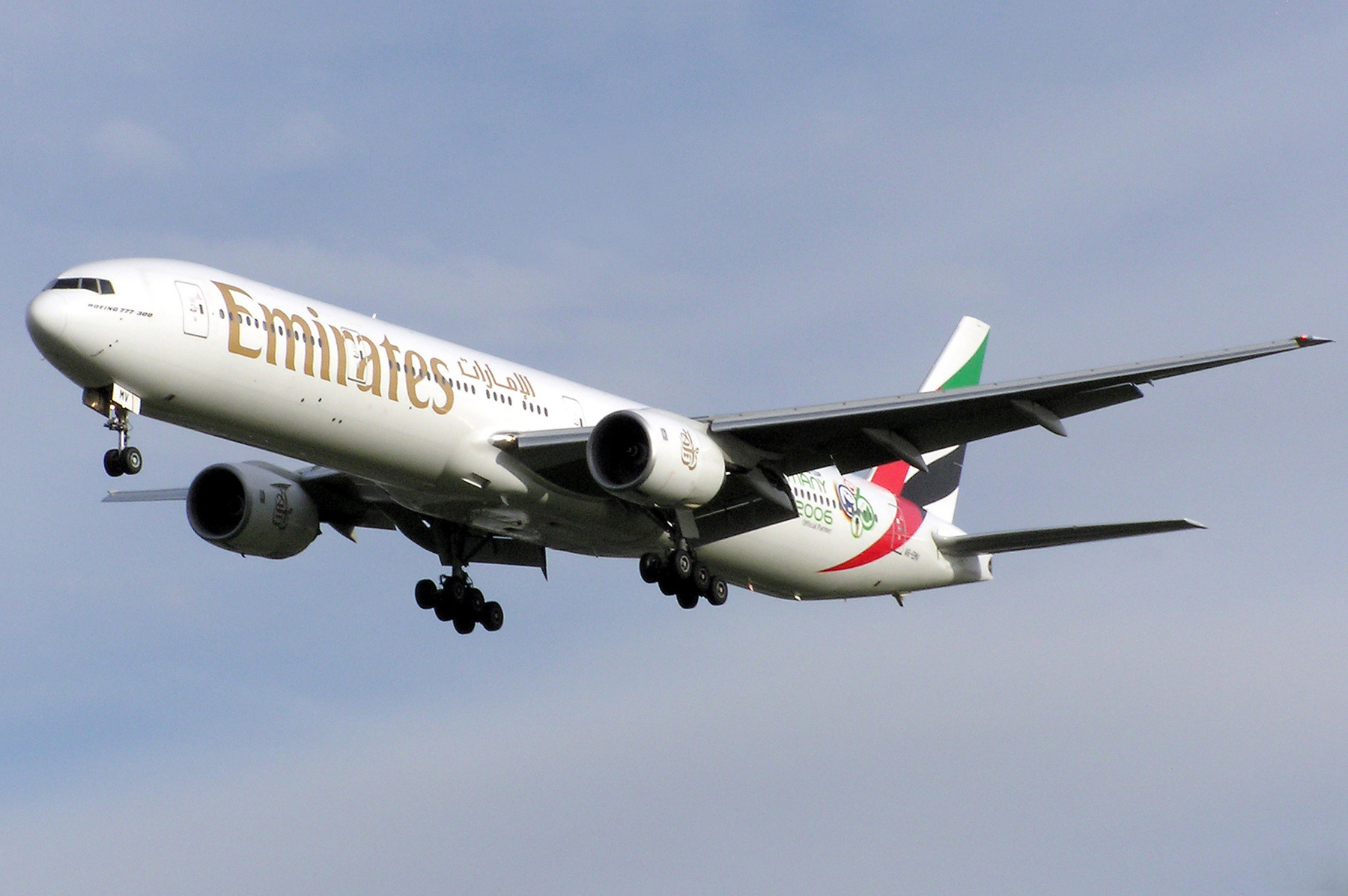 Emirates Boeing 777-300 (A6-EMV) landing at London Heathrow Airport, England. Photographed by Adrian Pingstone in November 2005 and released to the public domain.